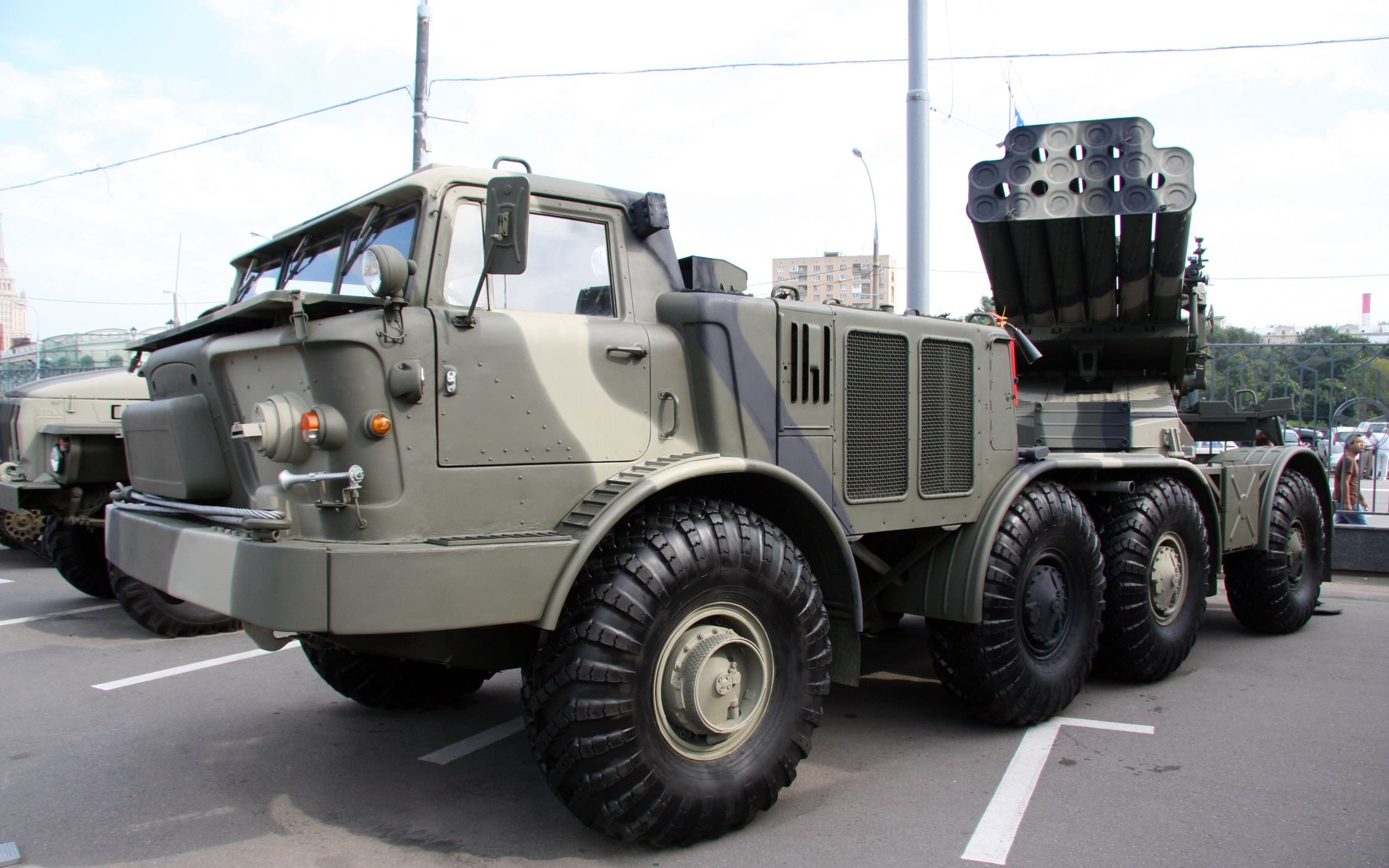 9K57 Uragan (IDELF-2008 - Ministry of Defence of Russia exposition)